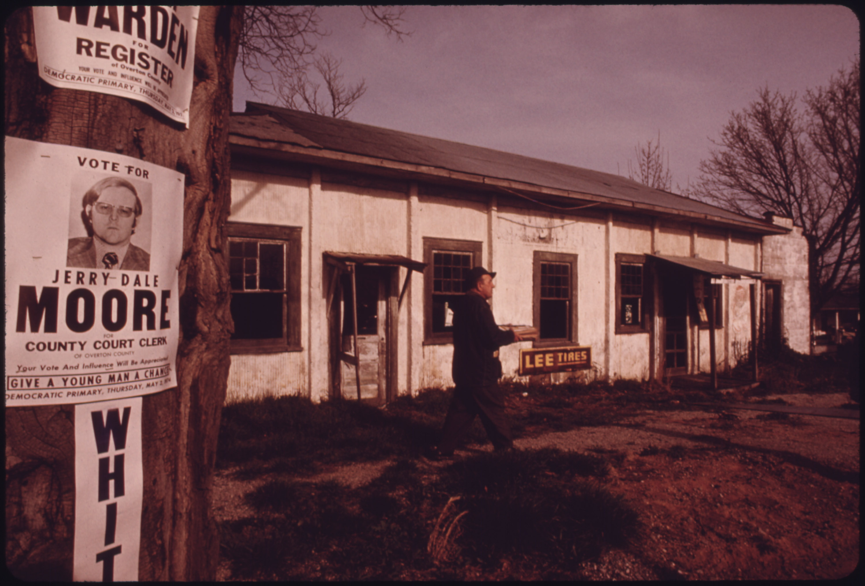 Exterior View of a Deserted Store in Crawford, Tennessee near Cookeville. The Town Was Once a Booming Coal Mining Headquarters, But Now Is Largely Uninhabited. The Last Year the State Issued Licenses to the Store Was in 1966. The Man in the Picture Is a Retired Miner Who Lives in the Neighborhood and Has Just Come From the Small Post Office There 04/1974